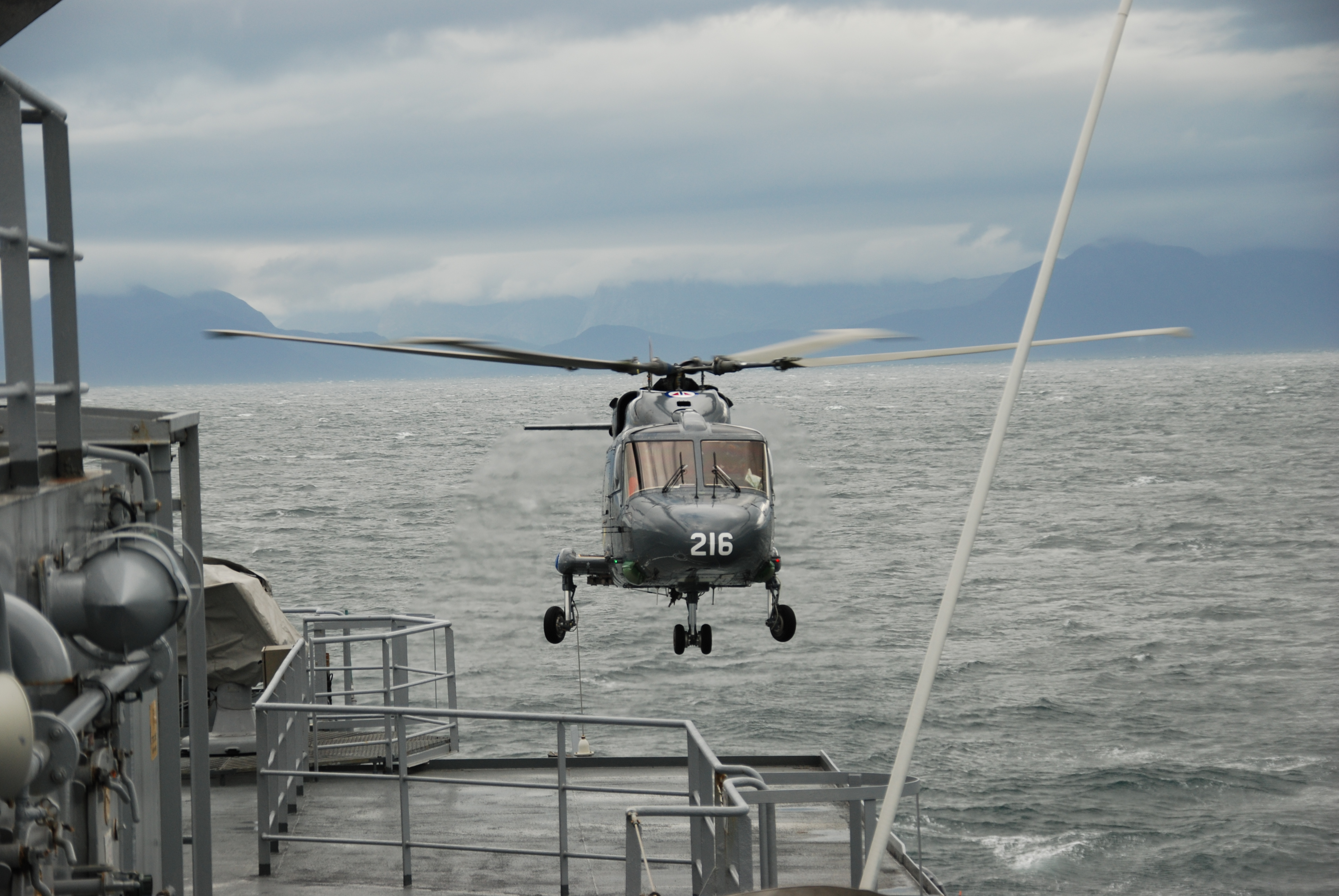 NCGV Helicopter landing on CG Senja